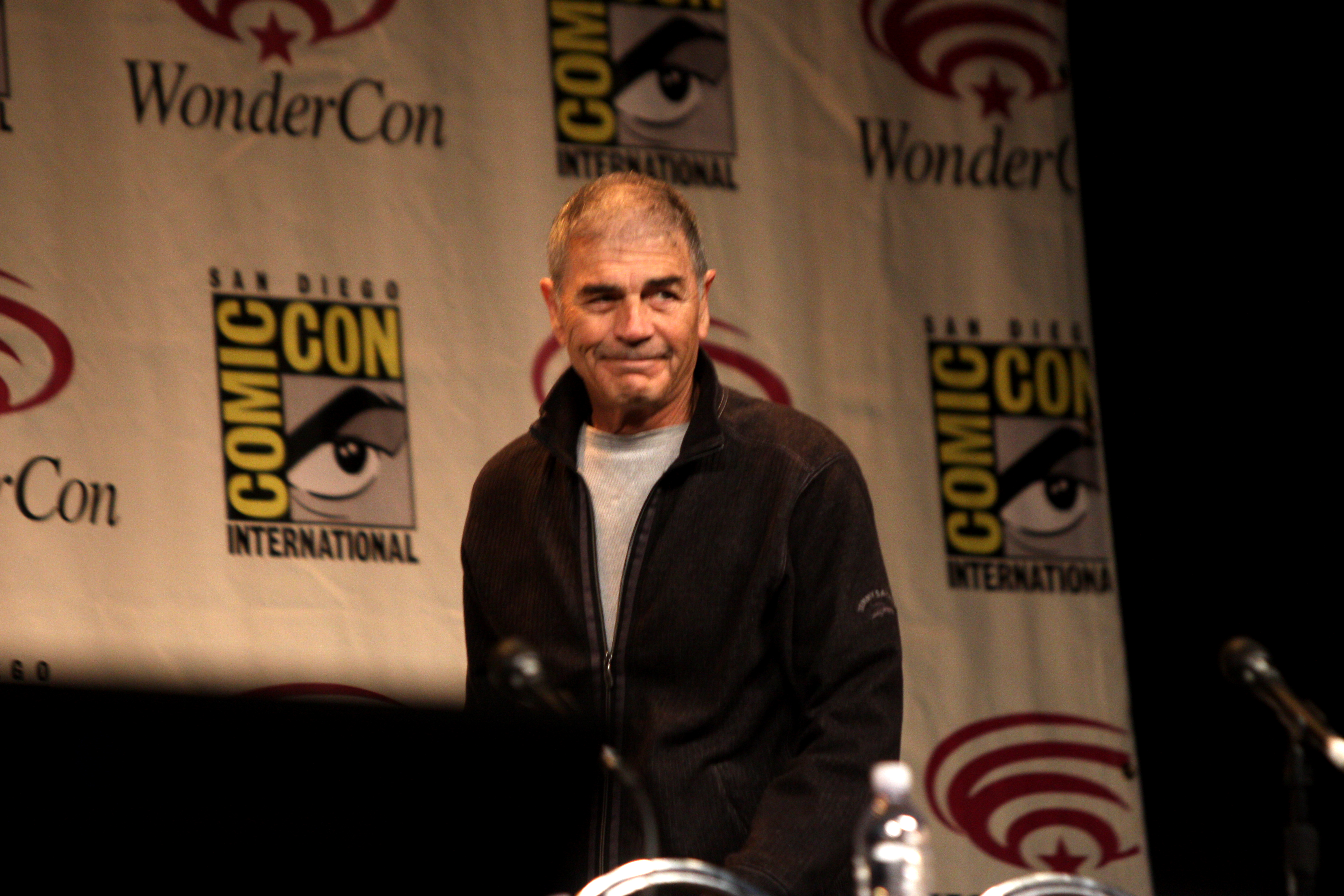 Robert Forster speaking at the 2012 WonderCon in Anaheim, California.